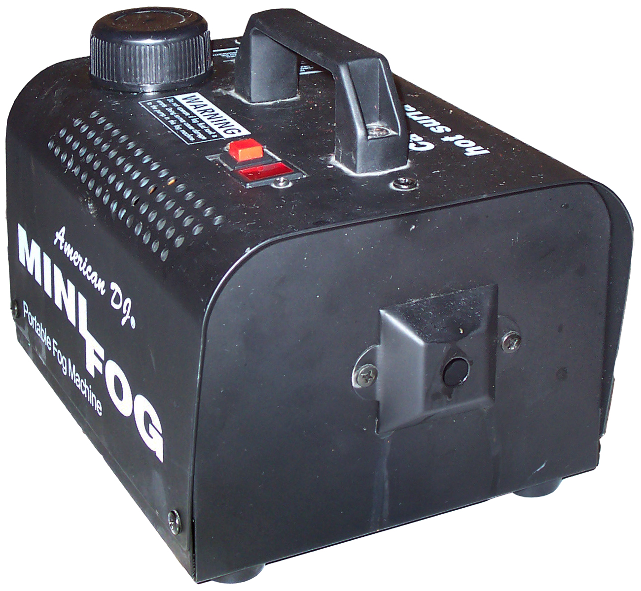 simple Fog machine